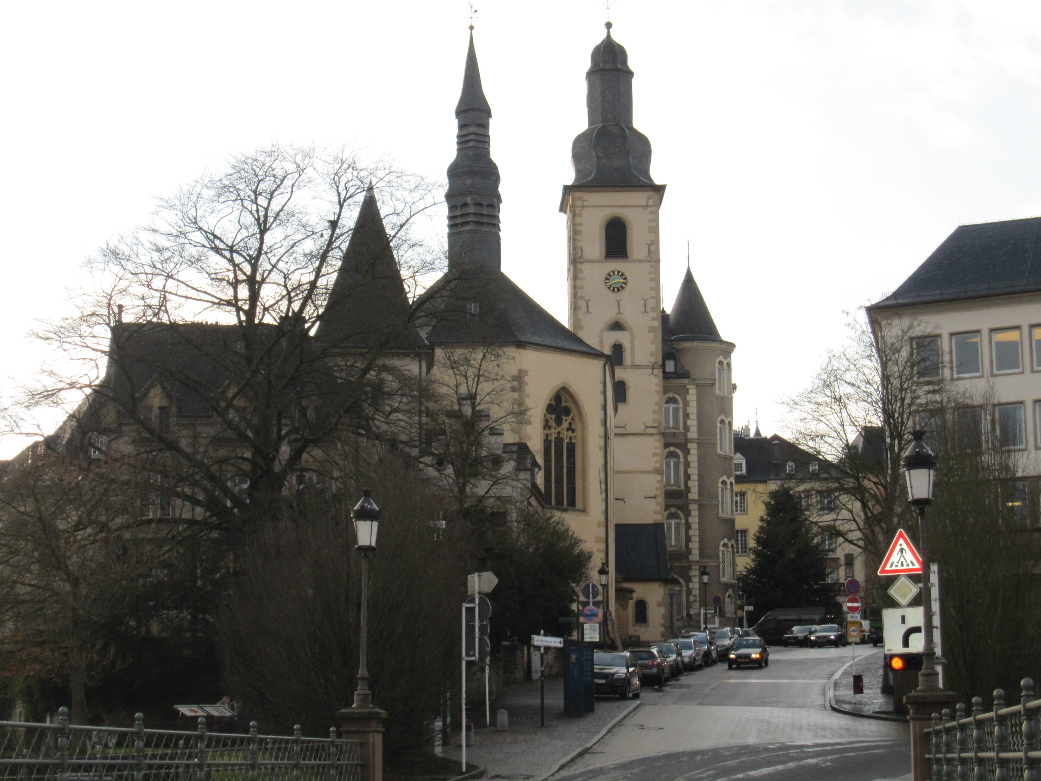 View on the Luxembourg-city from Casemates, on the State Counsel, on the church St. Michel